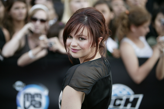 Amber Tamblyn at the 2007 MuchMusic Video Awards red carpet.